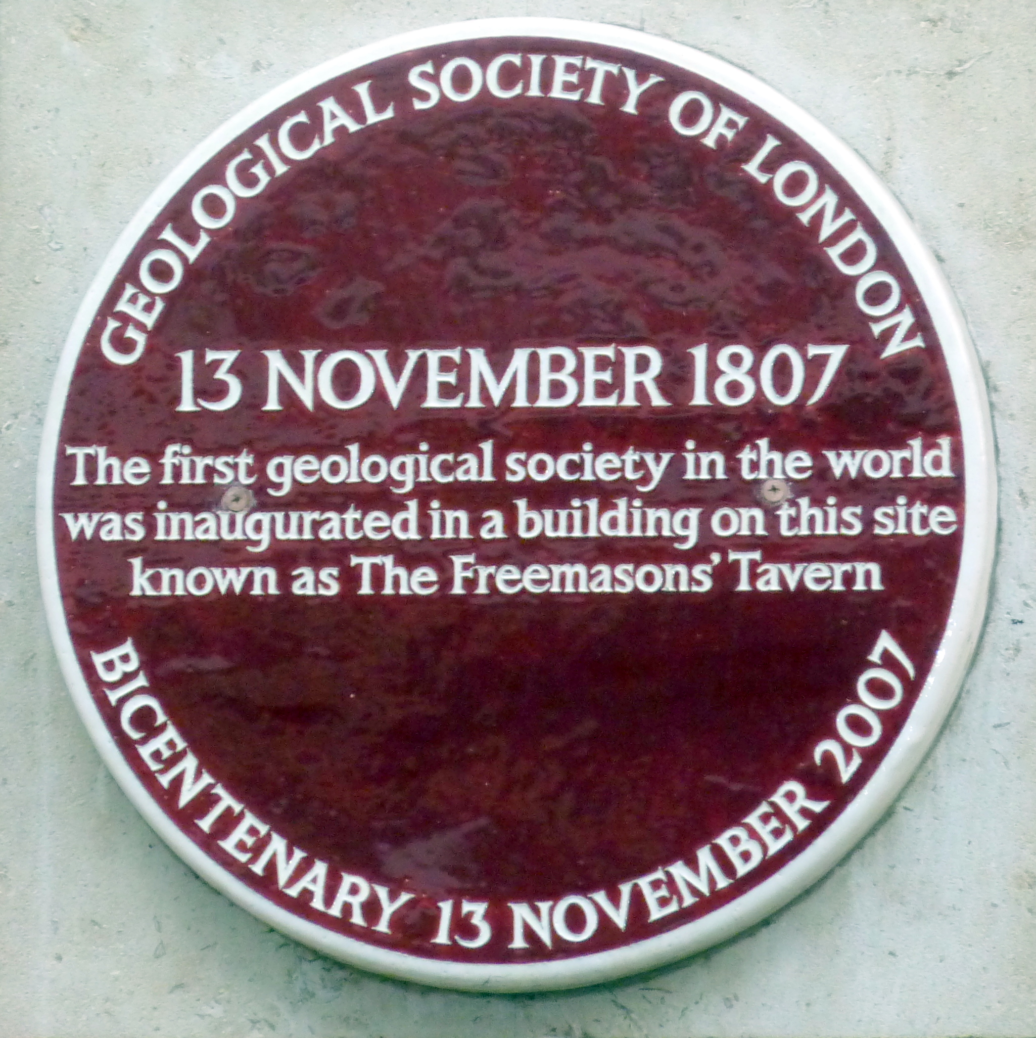 Plaque to The first geological society on Freemasons' Hall, London 61-65 Great Queen Street, London WC2B 5DA